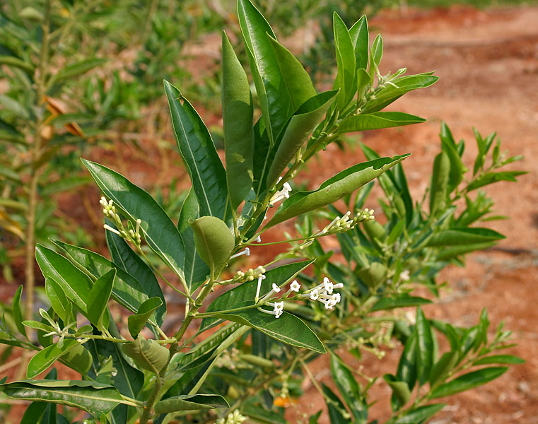 Cestrum diurnum - day cestrum, day jasmine, inkberry, China Berry, white chocolate jasmine, tentanchinu, thauthau or tintan china near Hyderabad, India.